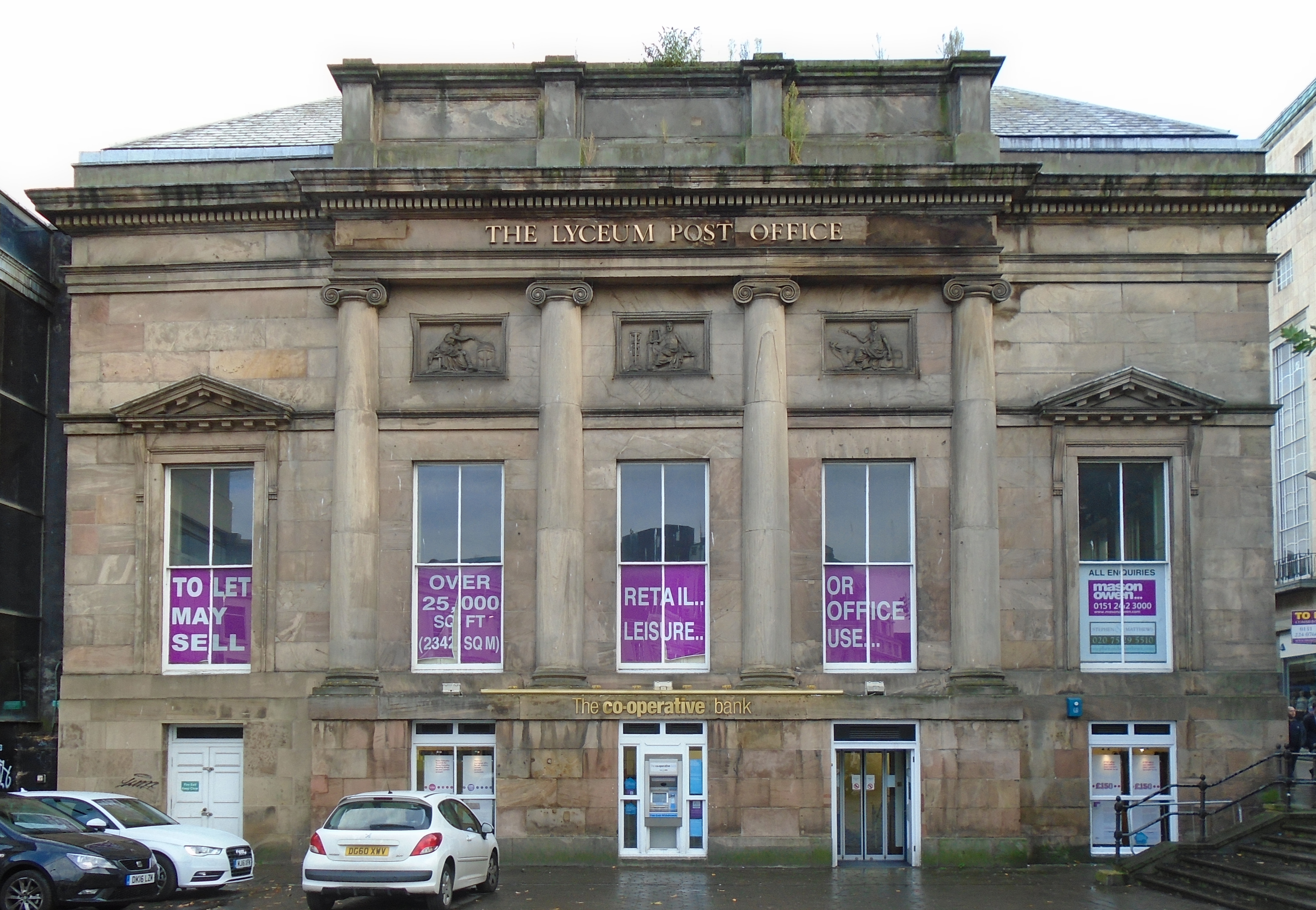 North elevation of the Grade II* listed early 19th century Lyceum building, formerly a reading room, gentlemans' club, post office, and a Coop Bank, between Liverpool Central station and Bold Street